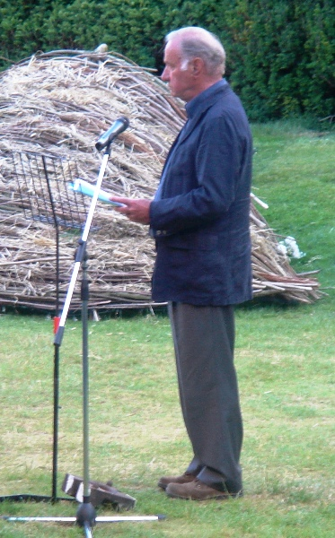 Geoffrey Palmer performing at A Breath of Fresh Air (by the Chiltern Shakespeare Society) on the 17 June 2008. Taken by me (Adaircairell (talk) 23:24, 16 June 2008 (UTC)), medium quality.